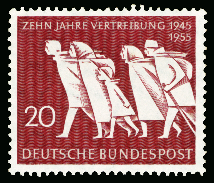 for 10 jears of expulsion Graphics by Walter Ausgabepreis: 20 Pfennig First Day of Issue / Erstausgabetag: 2. August 1955 Michel-Katalog-Nr: 215